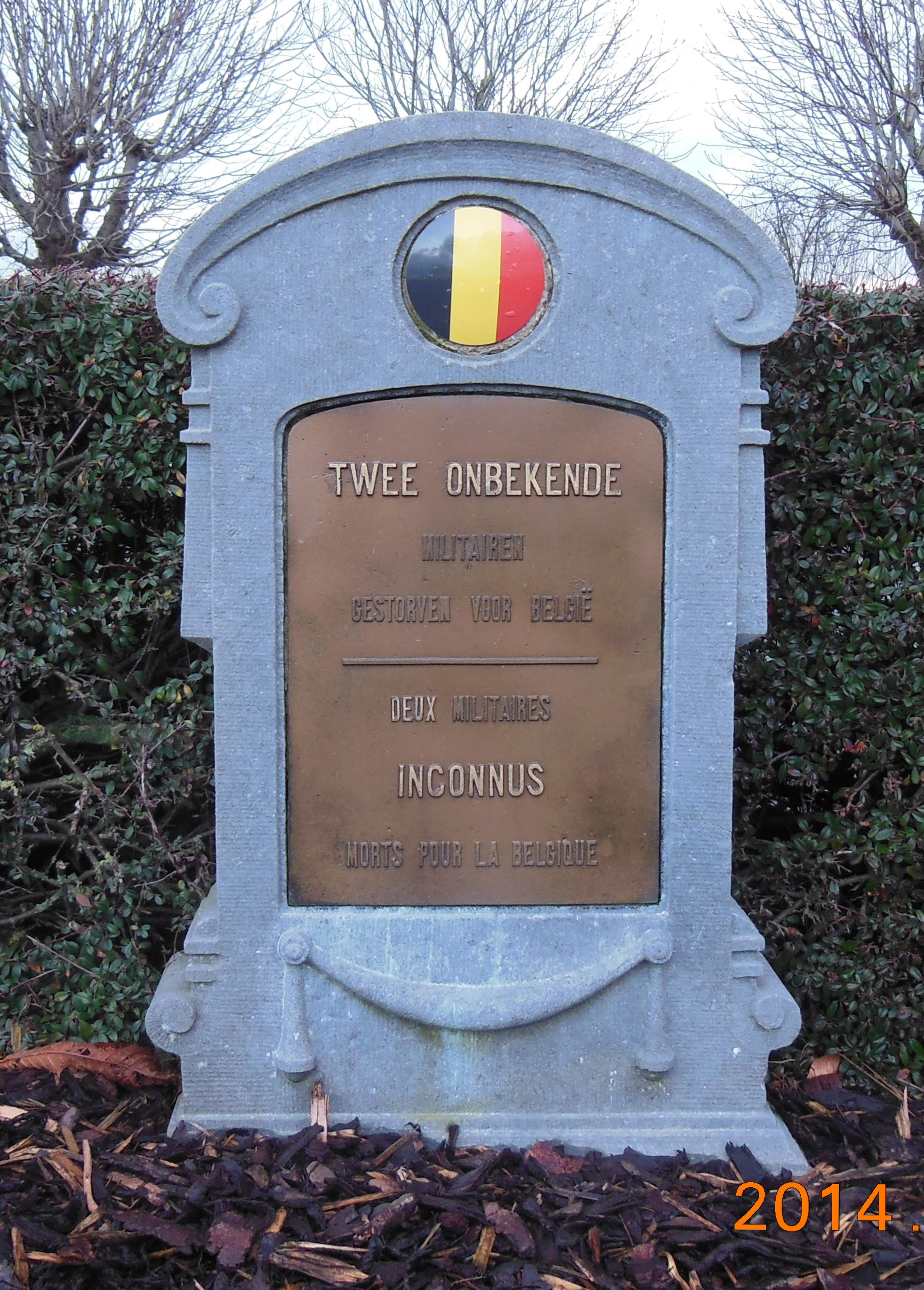 Gravestone for two unknown miltary; Dutch and French language inscription